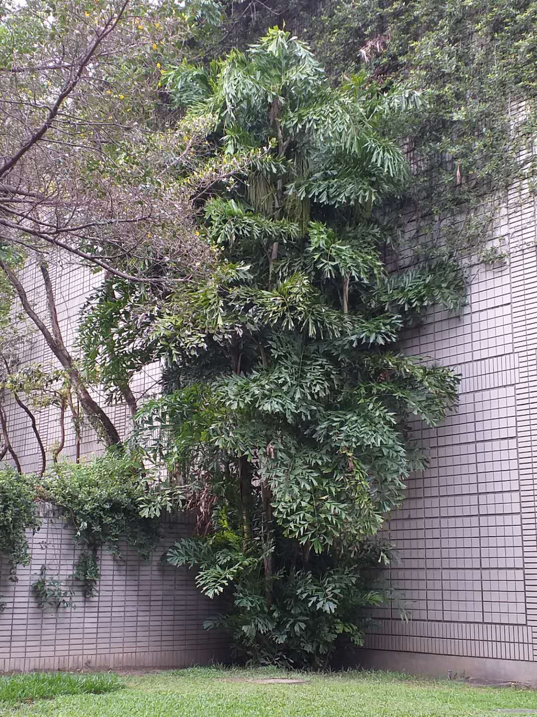 Caryota mitis, National Museum of Natural Science, Taichung, Taiwan.